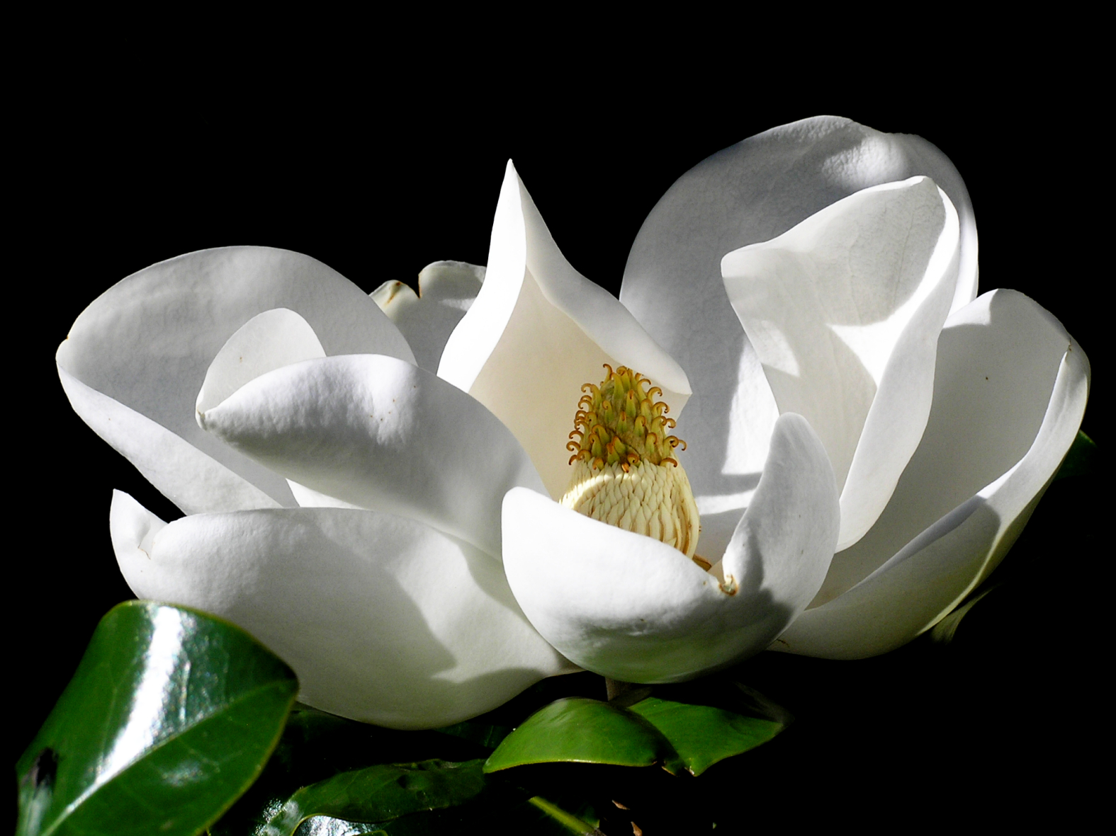 Magnolia grandiflora 'Goliath', known as the Southern Magnolia or bull bay in its native USA where it is found from North Carolina to central Florida, and west to Texas. It is the State Flower of both Louisianna and Mississippi and the tree that bears it can be up to 30ft tall.